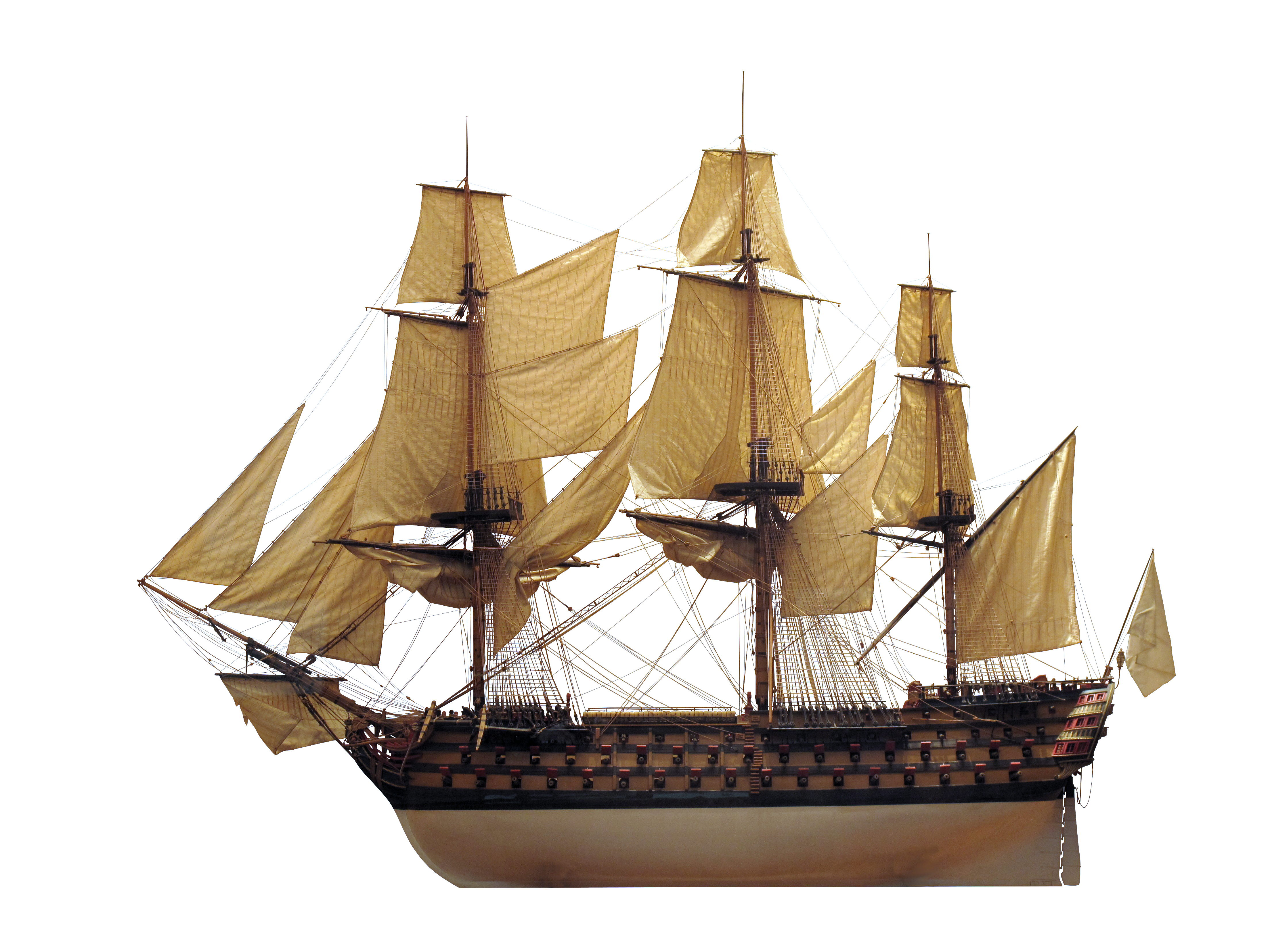 1/48 scale model of the Océan class 120-gun ship of the line Commerce de Marseille On display at Marseille maritime museum